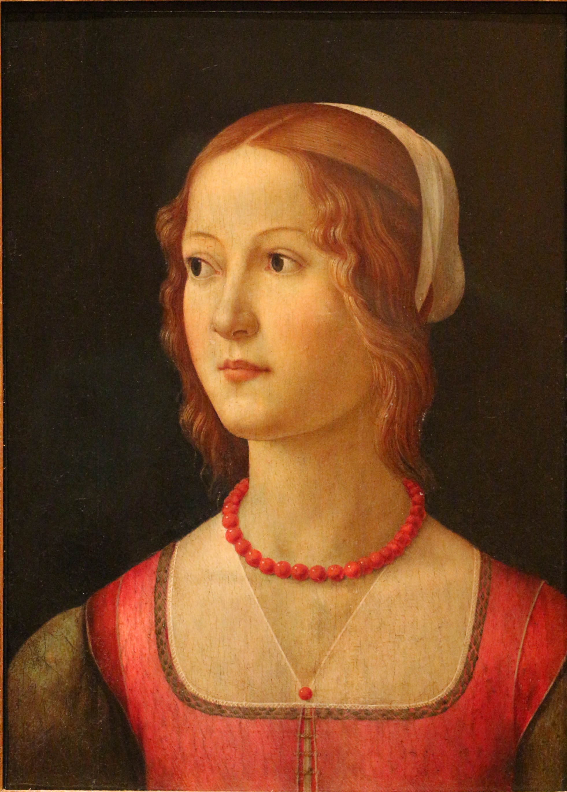 Italian paintings in the Calouste Gulbenkian Museum